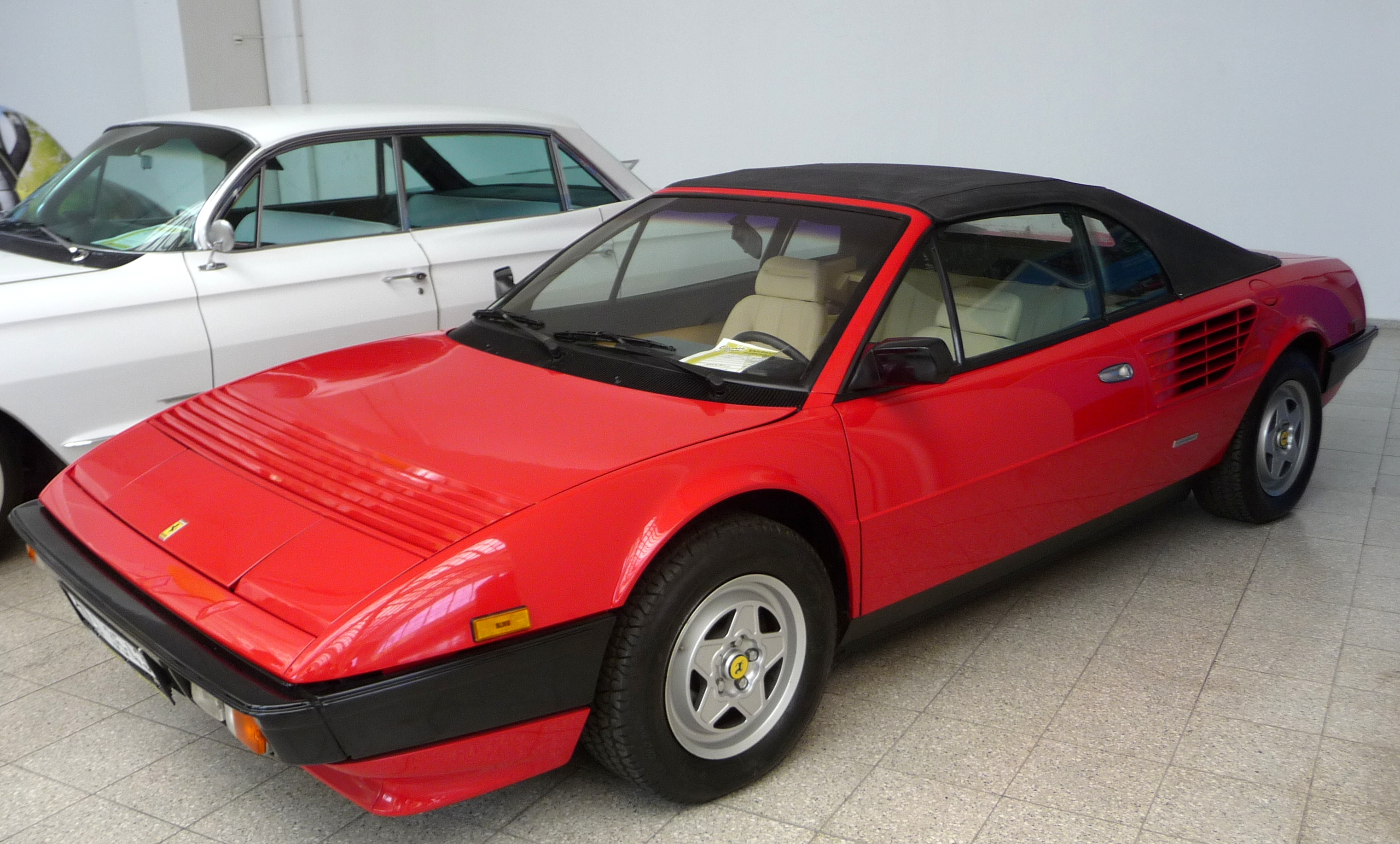 Ferrari Mondial, year 1985, Classic Show Brno 2011, The Brno Exhibition Grounds -10 -5 -3 -2 ◄ ► +2 +3 +5 +10